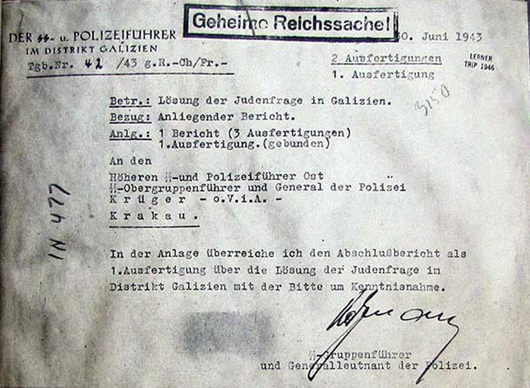 Cover page of the Katzmann Report, one of the most important testimonies relating to the Holocaust in Poland and the extermination of Polish Jews during World War II, used as evidence in Nuremberg Trials (USA No. L-18, Exhibit-277) and numerous other proceedings against war criminals abroad. It is a report by SS-Gruppenführer Fritz Katzmann, Commander of the German SS and Police in the District of Galicia, entitled "Lösung der Judenfrage im Distrikt Galizien" (The Solution of the Jewish Question in the District of Galicia). It describes part of the Operation Reinhard.